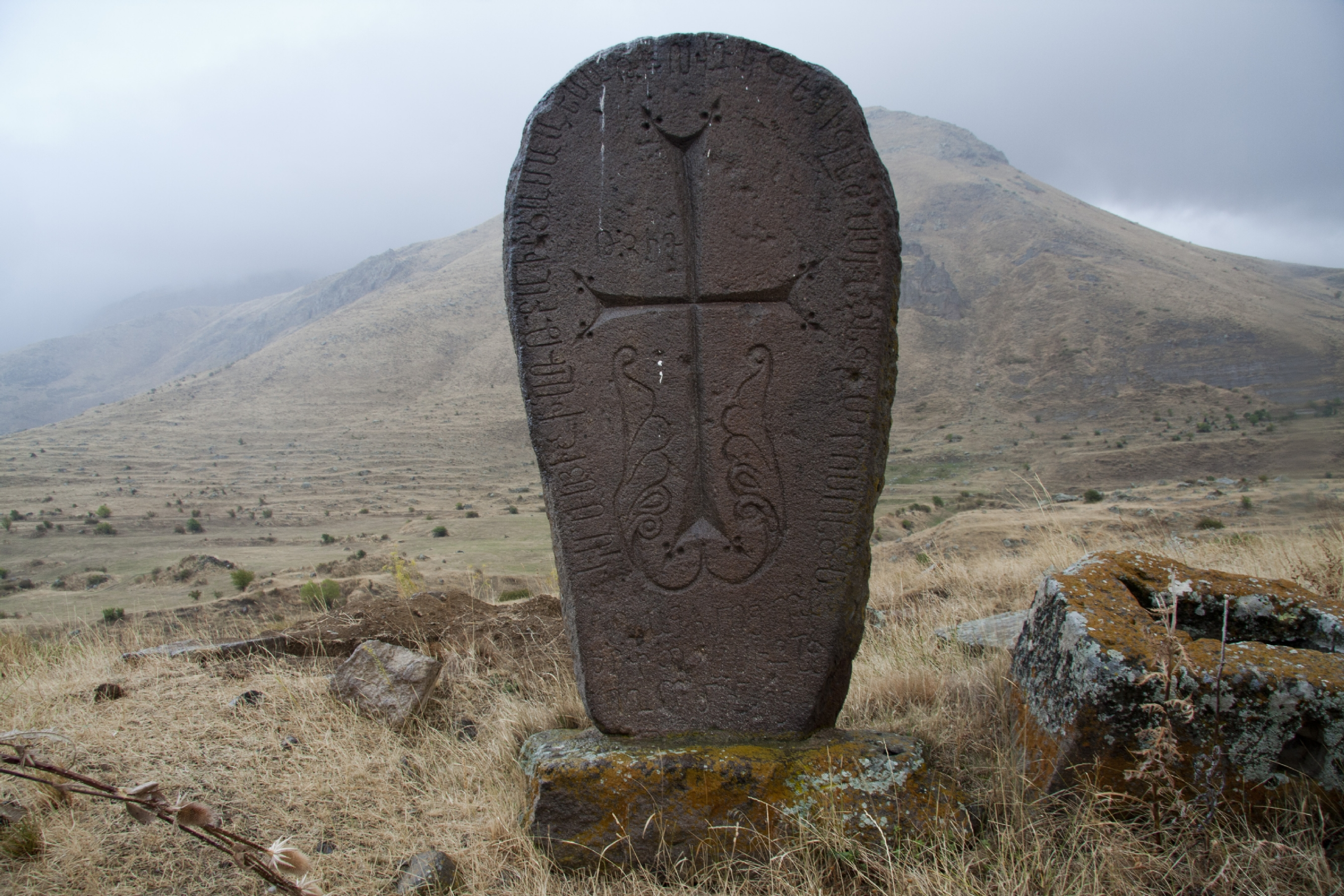 Խաչքար Ժայռափոր եկեղեցու մոտակայքում 33/6